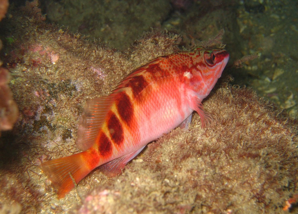 A Half-banded Seaperch (Hypoplectrodes maccullochi) perches on a ledge. Fairy Bower, Manly, NSW